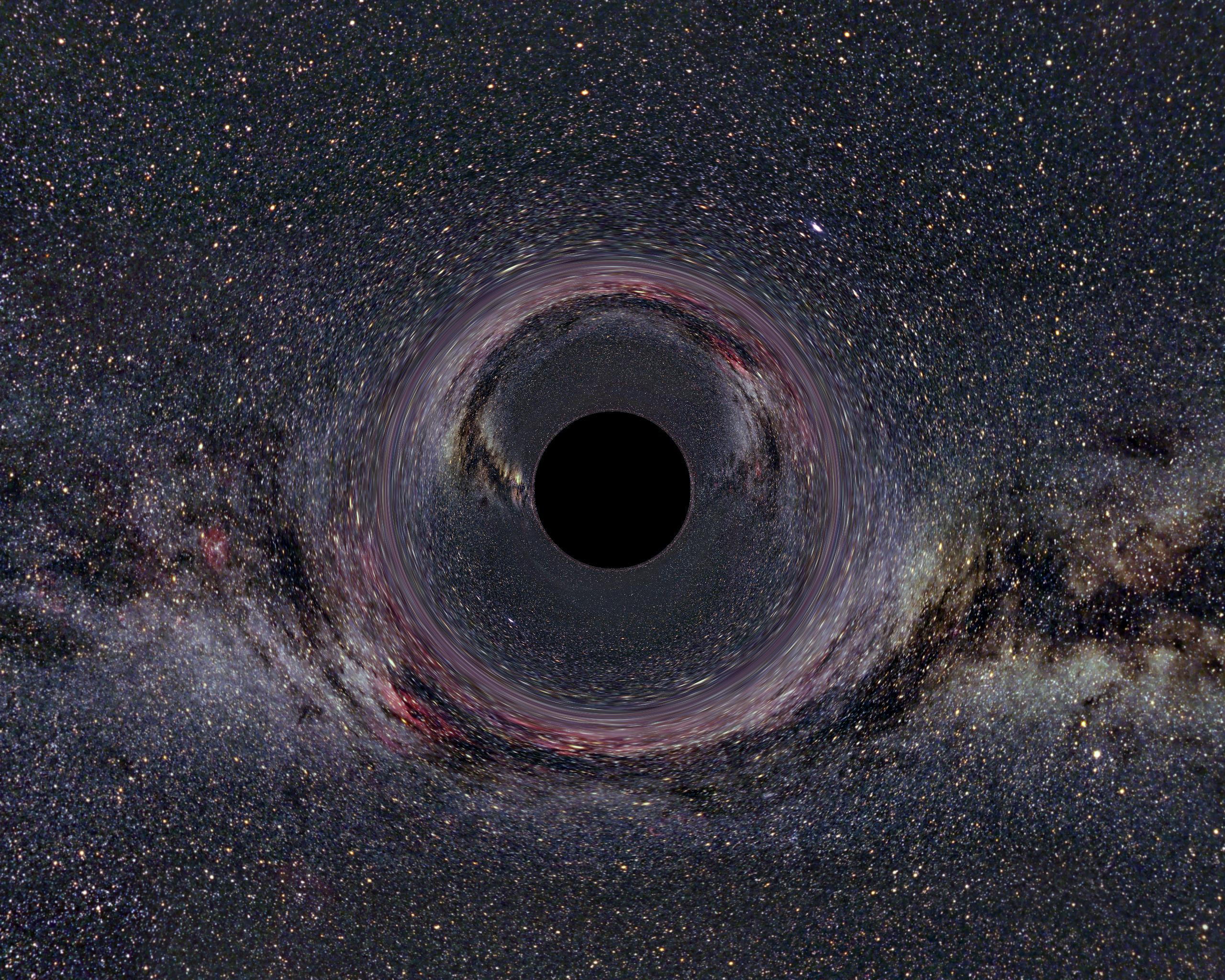 A simulated Black Hole of ten solar masses as seen from a distance of 600km with the Milky Way in the background (horizontal camera opening angle: 90°) More Information: Step by Step into a Black Hole